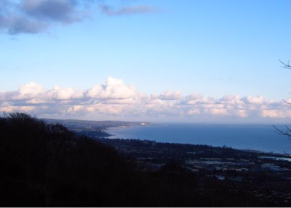 seamus kane